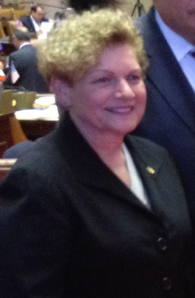 New York State Assemblywoman Ellen Jaffee